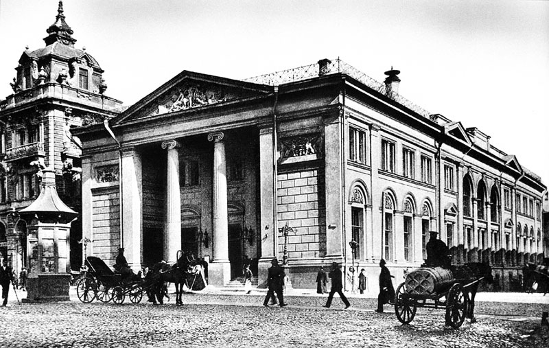 Moscow Exchange in 19th century